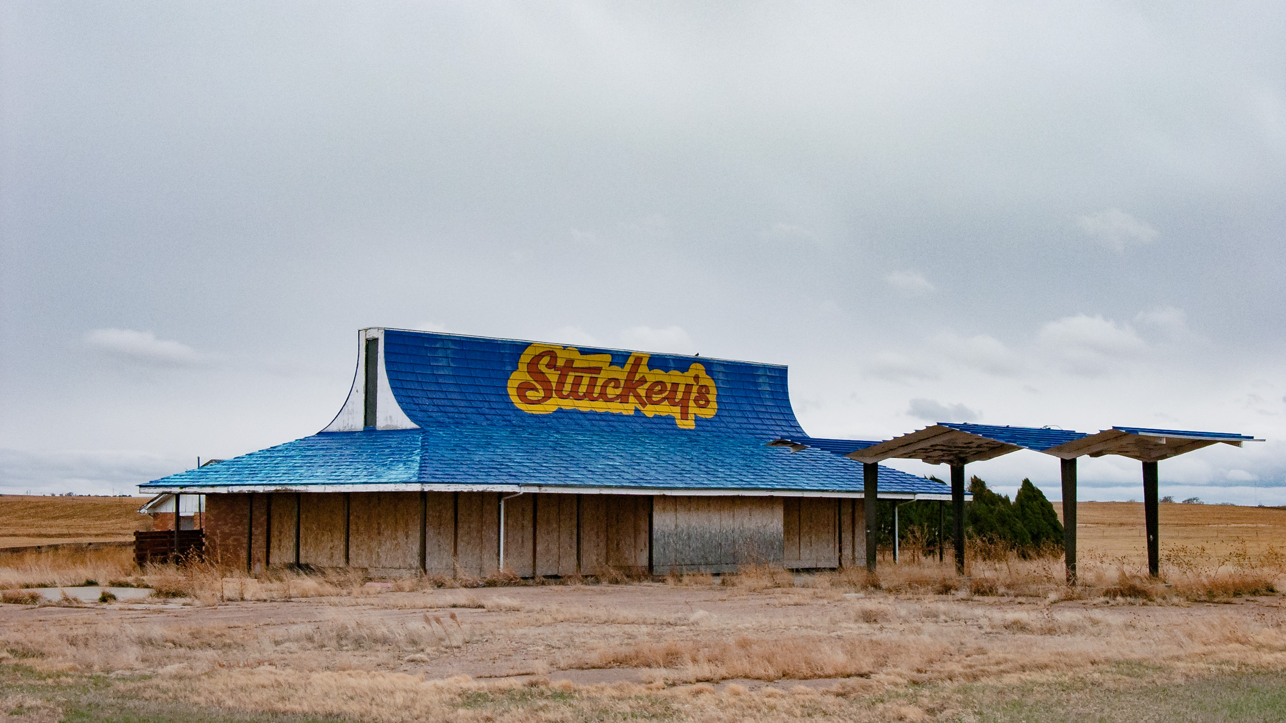 Taken on a road trip between Minnesota and California in 2004. I'm unsure of where this was exactly, but it was likely along i80.